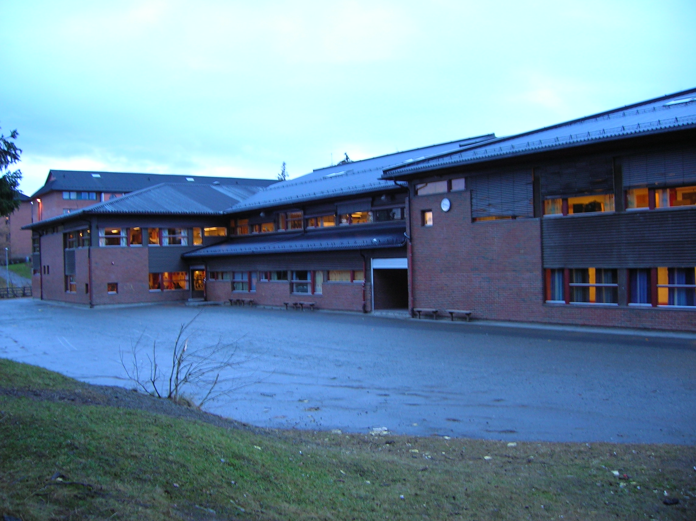 Picture of Flatåsen skole in Trondheim, Norway